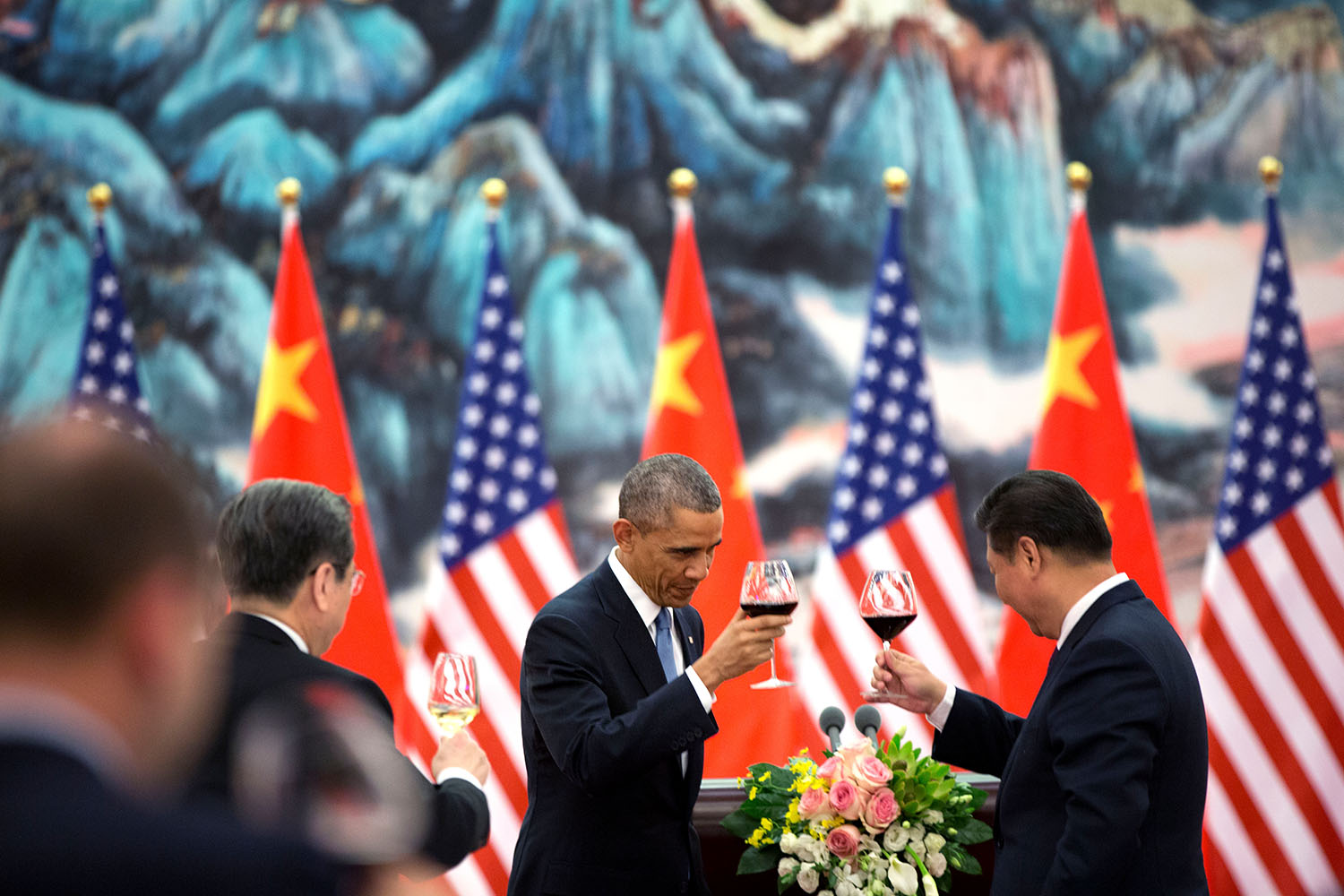 President Barack Obama offers a toast to President Xi Jinping of China during a State Banquet at the Great Hall of People in Beijing, China, Nov. 12, 2014. (Official White House Photo by Pete Souza)